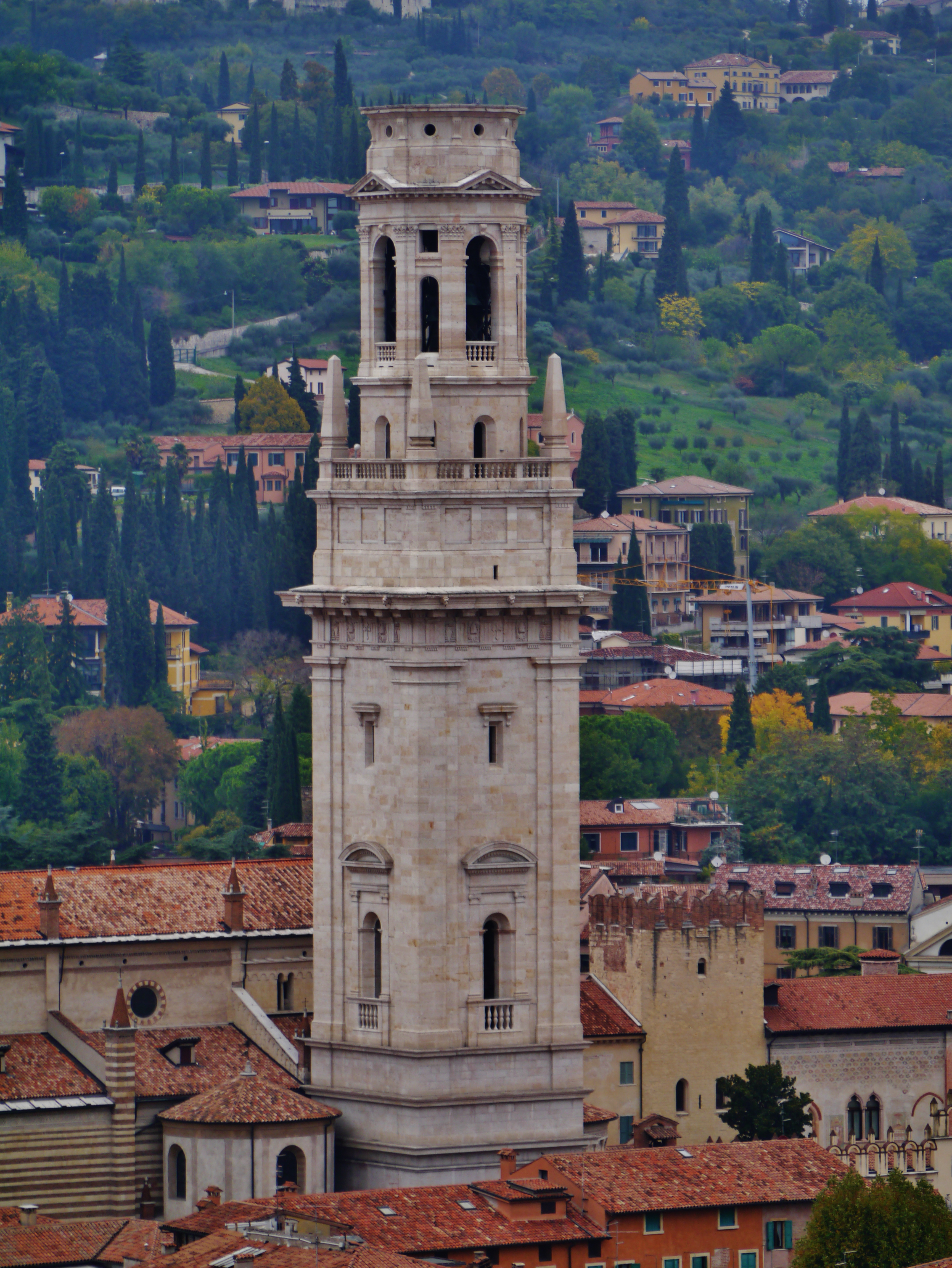 View from the Lamberti Tower to the Tower of the Cathedral of St. Mary, Verona, Province of Verona, Region of Veneto, Italy